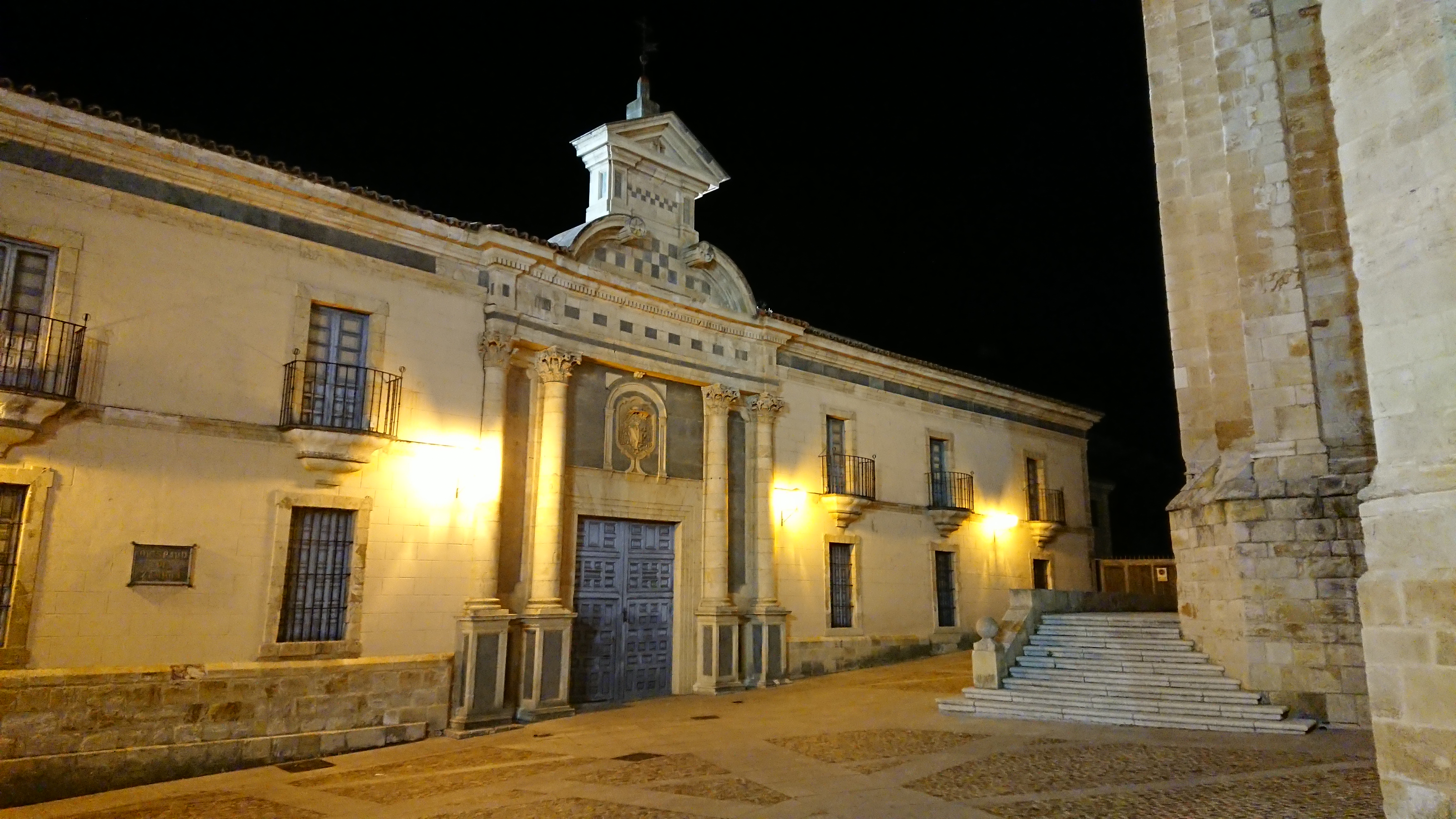 Episcopal Palace, Zamora (Spain)